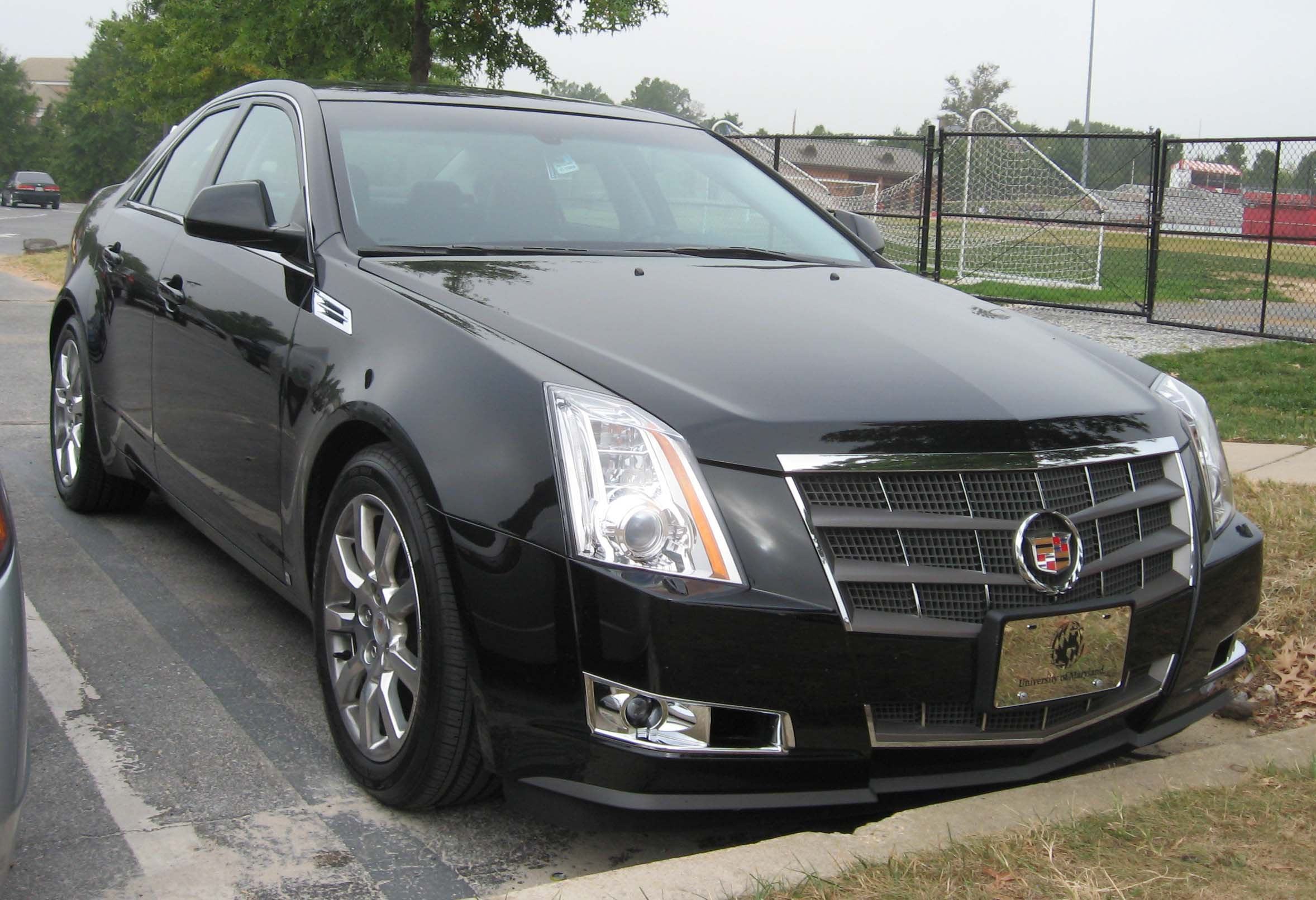 2008 Cadillac CTS4 photographed in College Park, Maryland, USA.